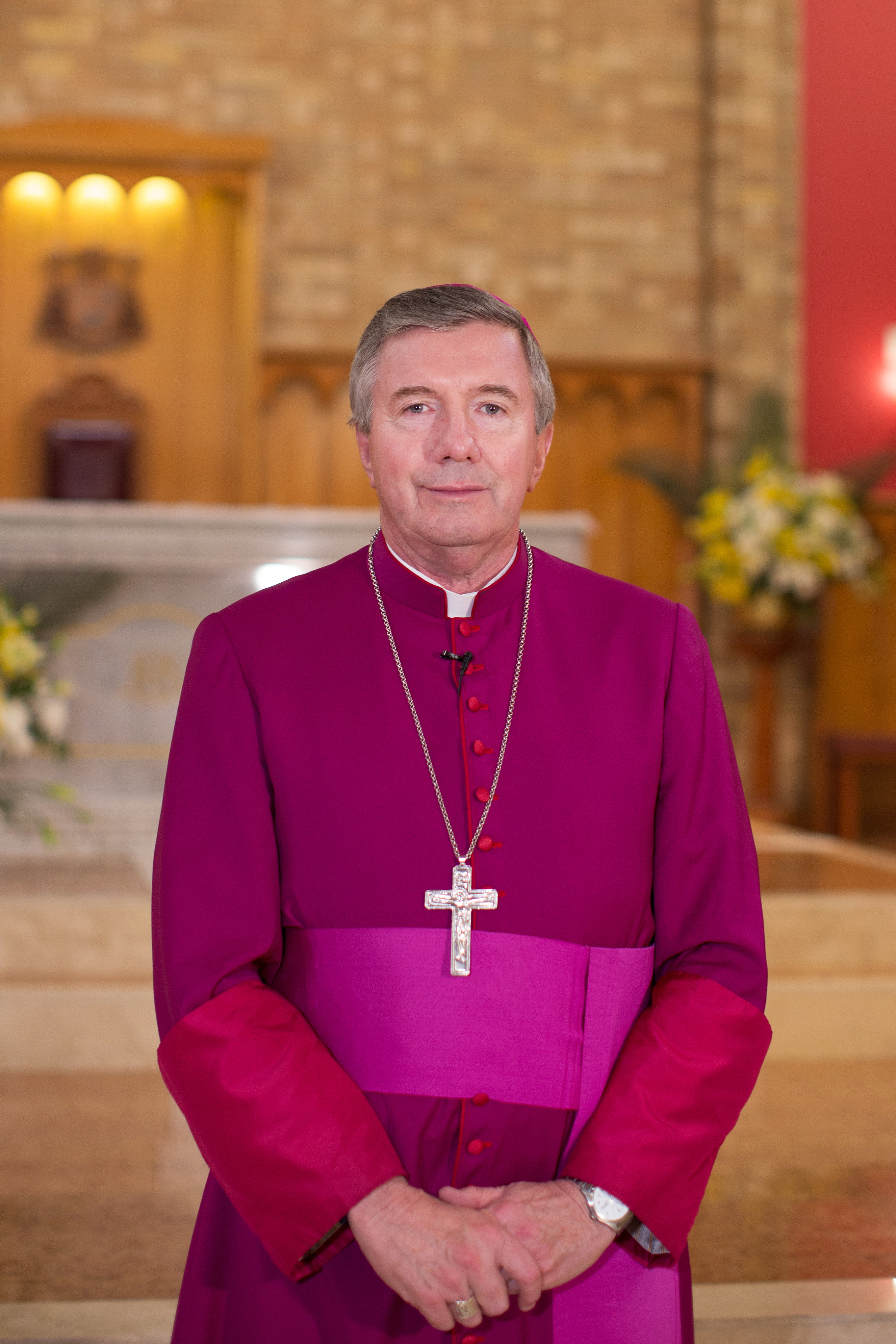 Archbishop Christopher Prowse